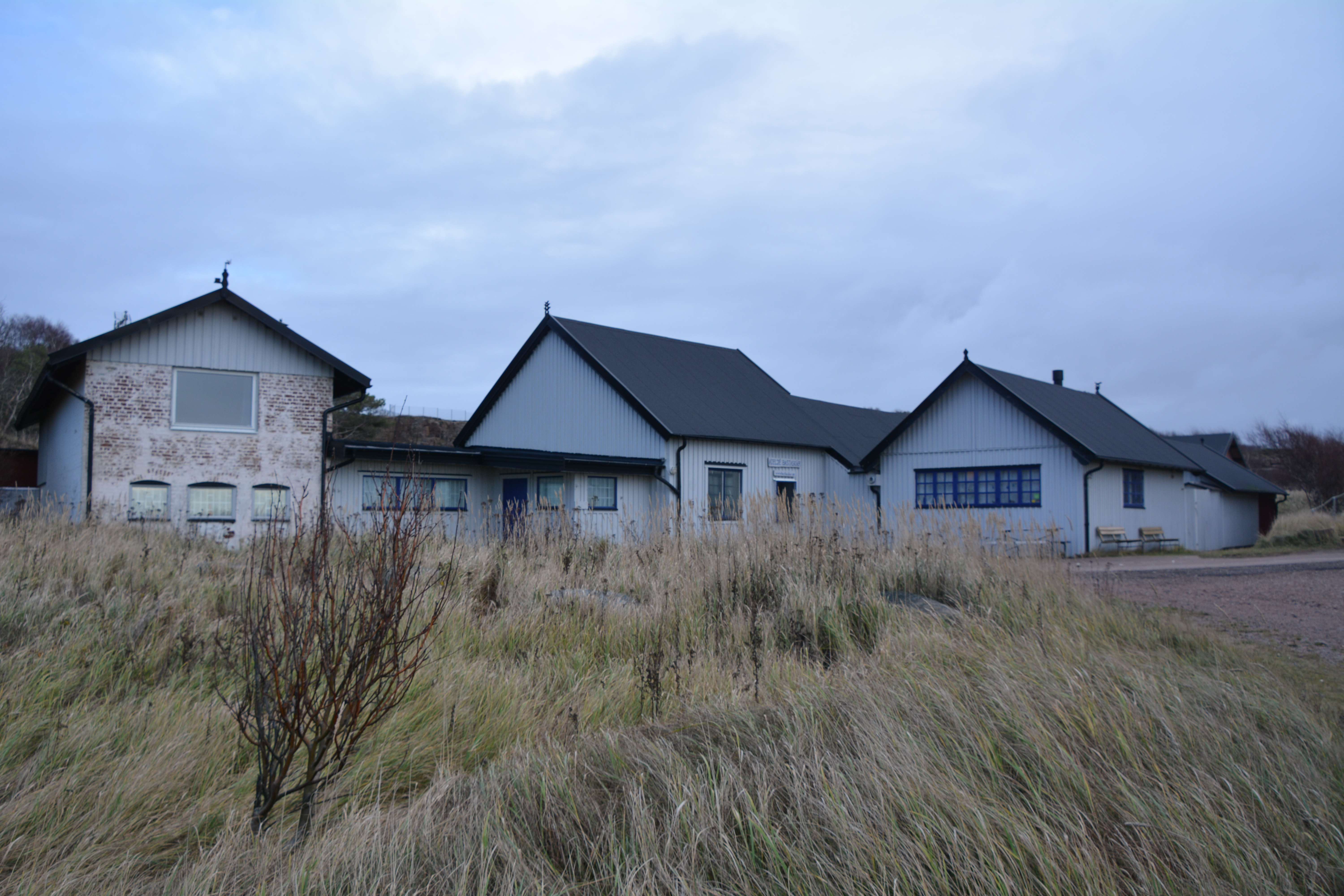 Walter Bengtssons ateljé Bastaskär i Grötvik, Halmstad